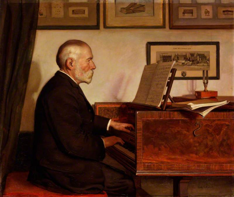 Alfred James Hipkins by Edith Hipkins in the National Portrait Gallery, London; Supplied by The Public Catalogue Foundation